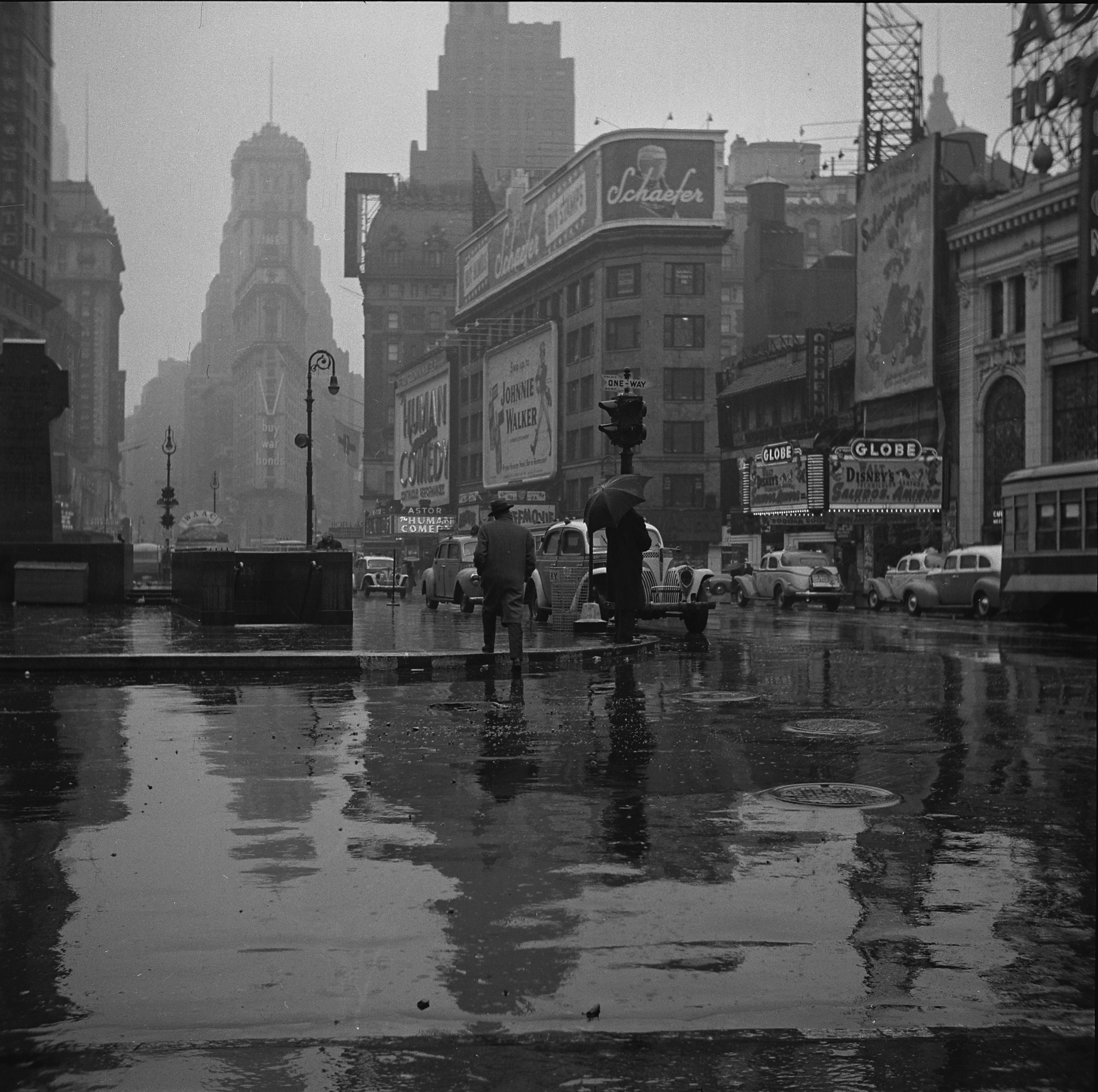 Times Square, New York City, on a rainy day, March 1943 Between March 2 and March 17, per discussion at [1]